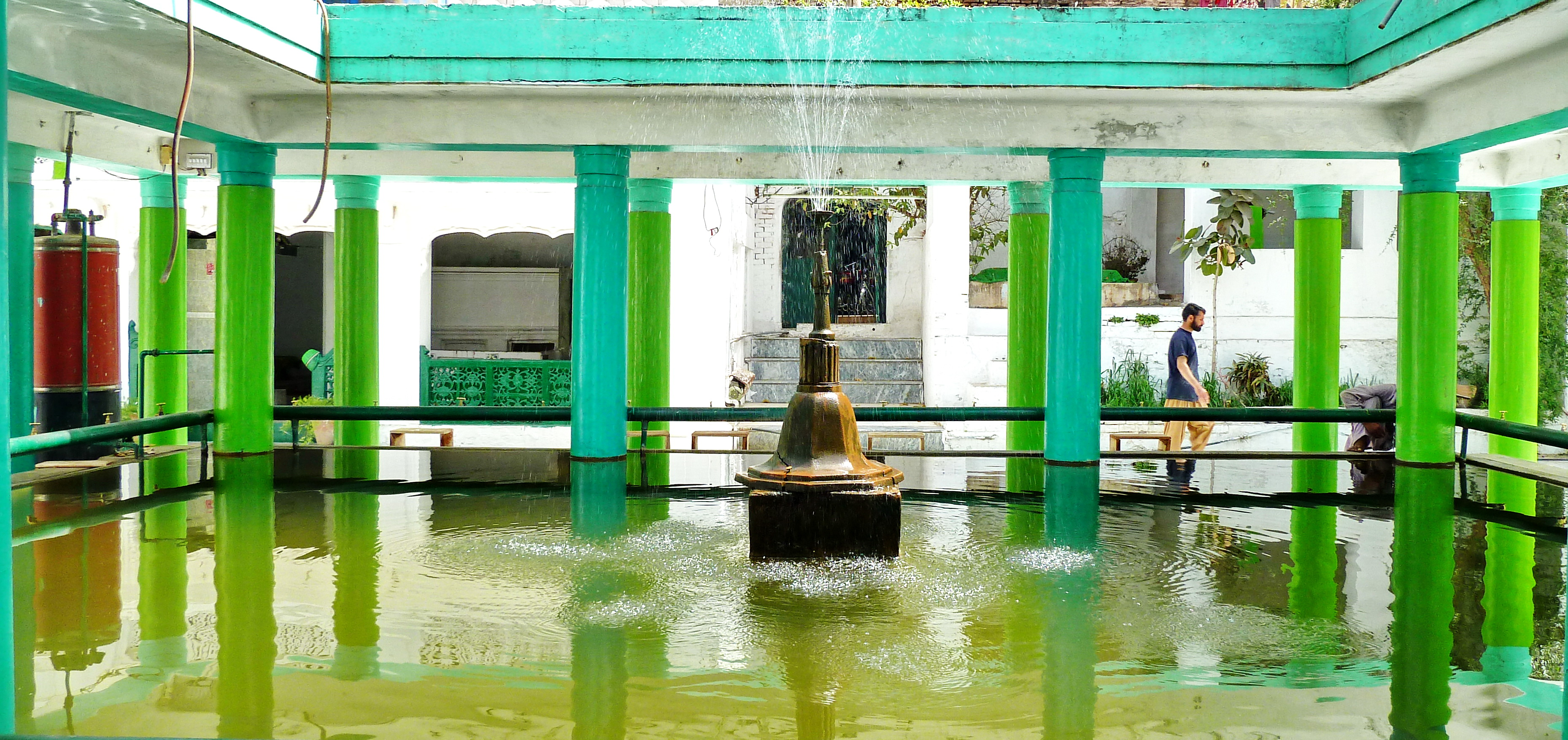 The central fountain and ablution area, Mariyam Zamani Mosque, Lahore This is a photo of a monument in Pakistan identified as the PB-68